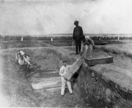 The Trench in Potter's Field